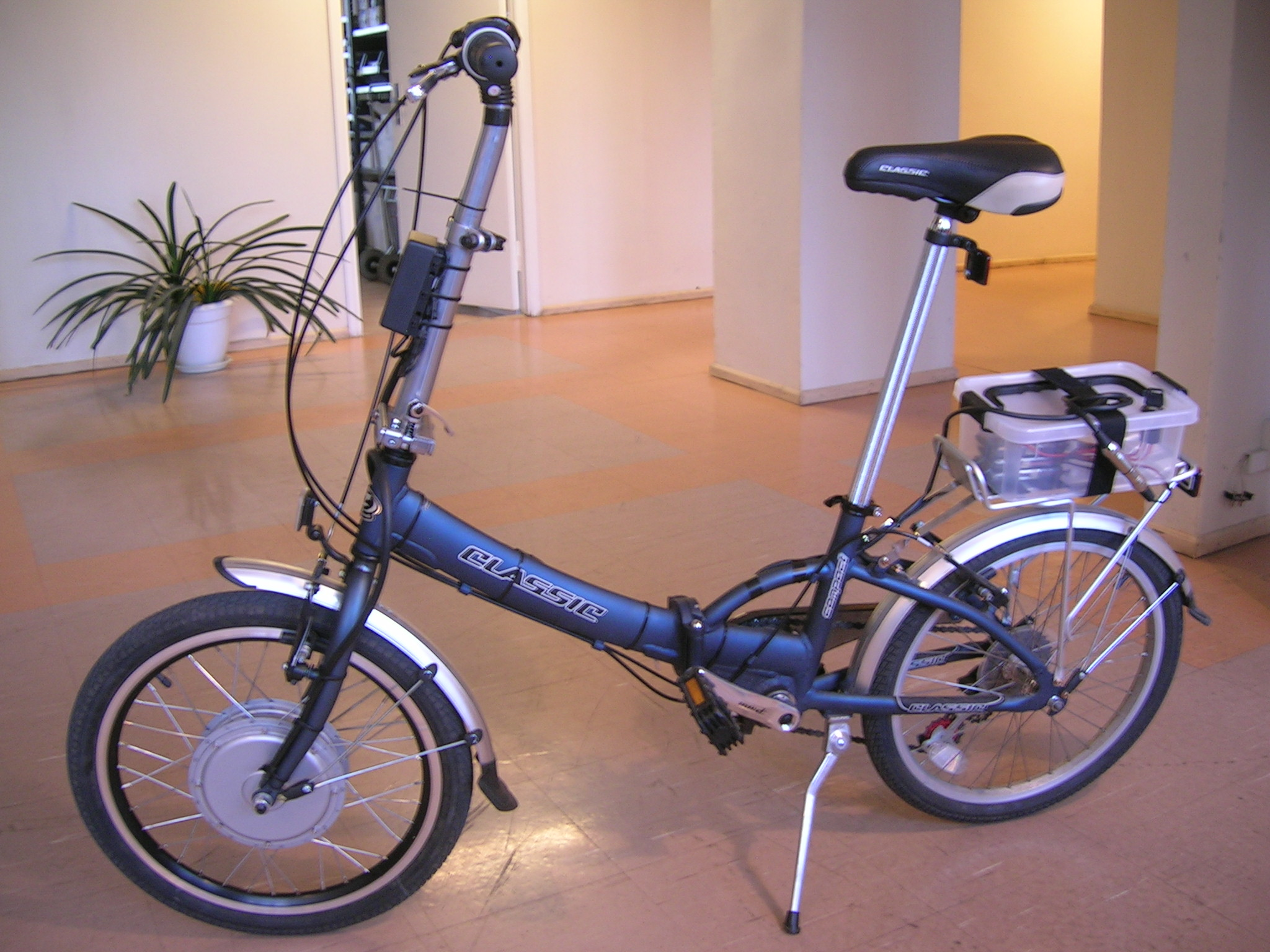 Photo of a power-assisted bicycle with a front wheel brushless electric motor. Photo taken after the outfitting of a new bike in June 2006, with a Nikon Coolpix 3700 compact camera.